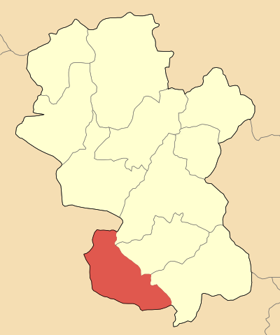 Locator map of Proussou municipality (Δήμος Προύσσου) at Evrytania prefecture, Central Greece.